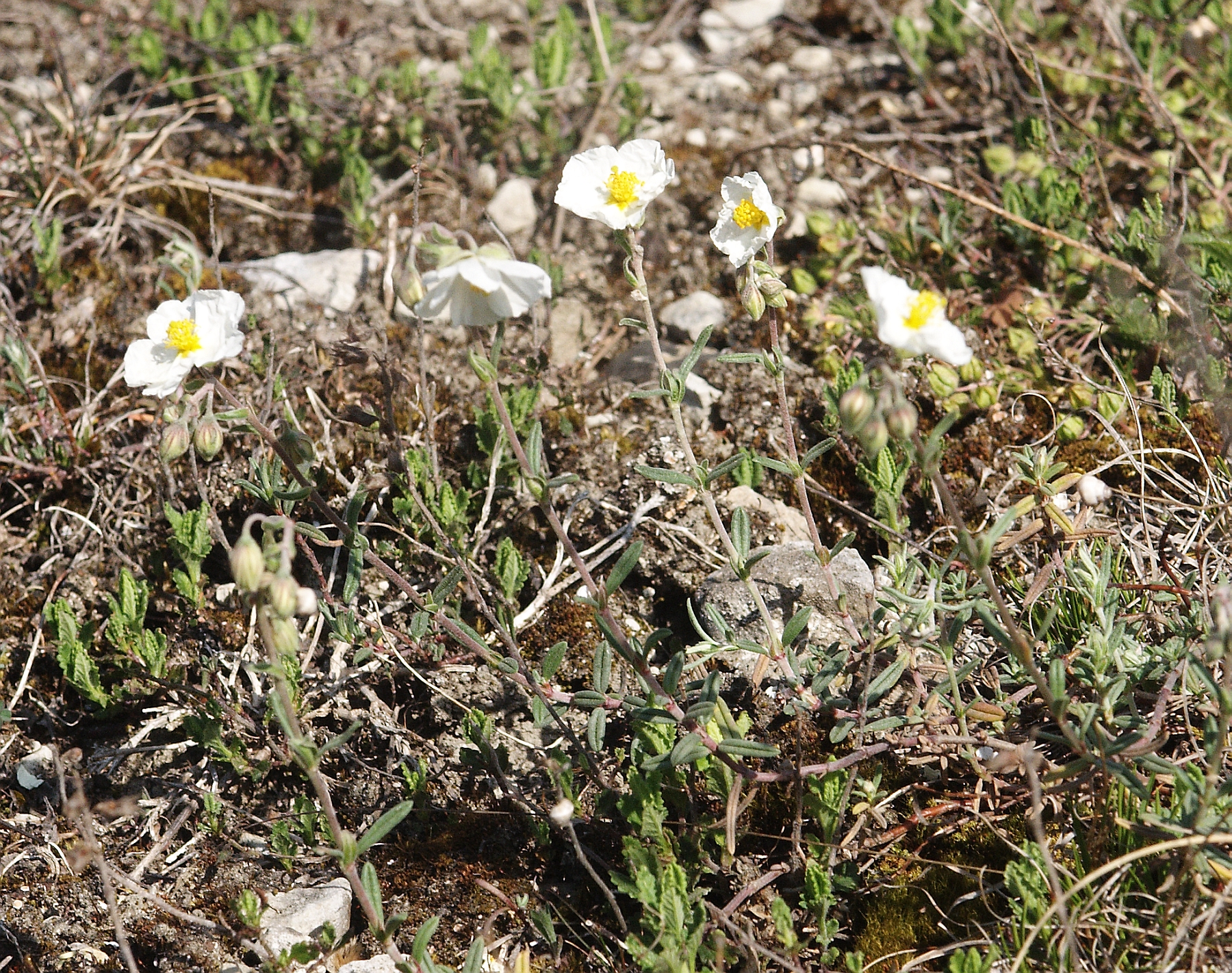 Helianthemum apenninum, Tauberland, Germany